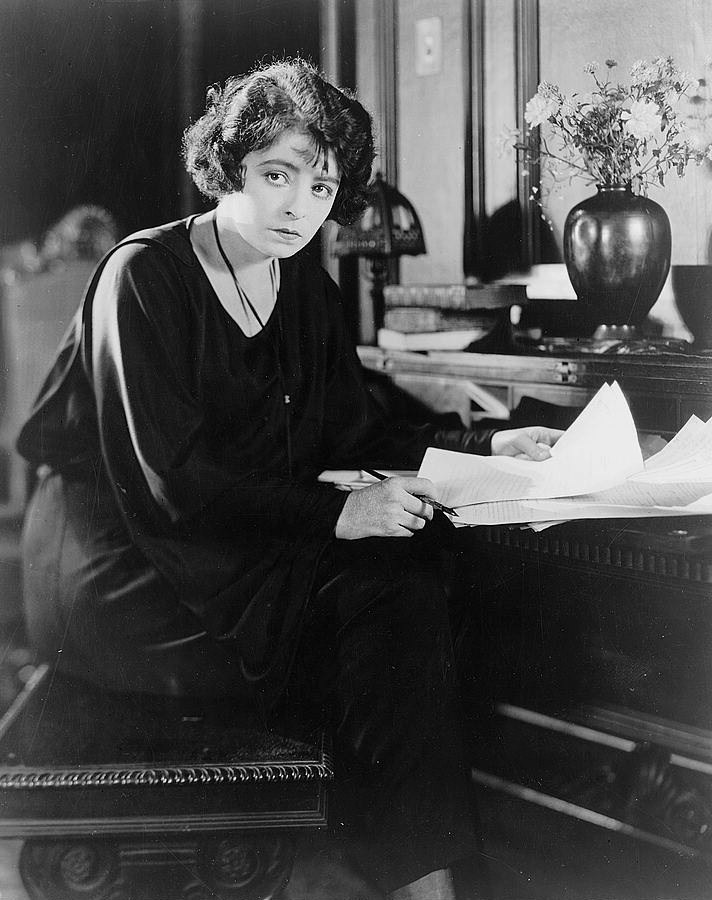 american actress Dorothy Davenport (original image cropped : see source)